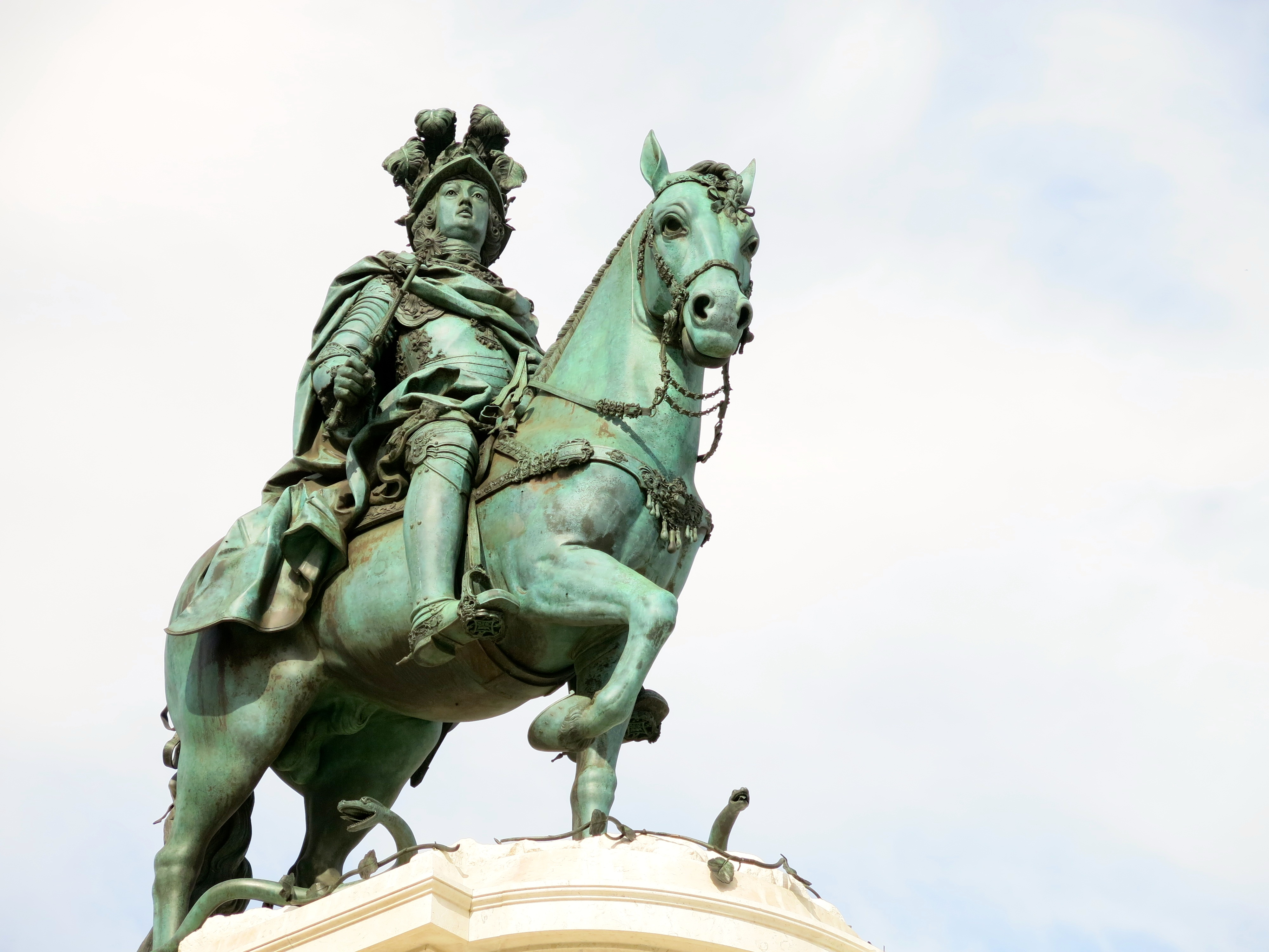 A road trip adventure through Portugal! More at